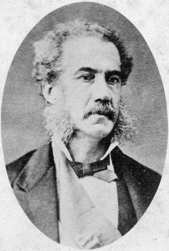 Julián Trujillo Largacha, Colombian president in 1878 to 1880